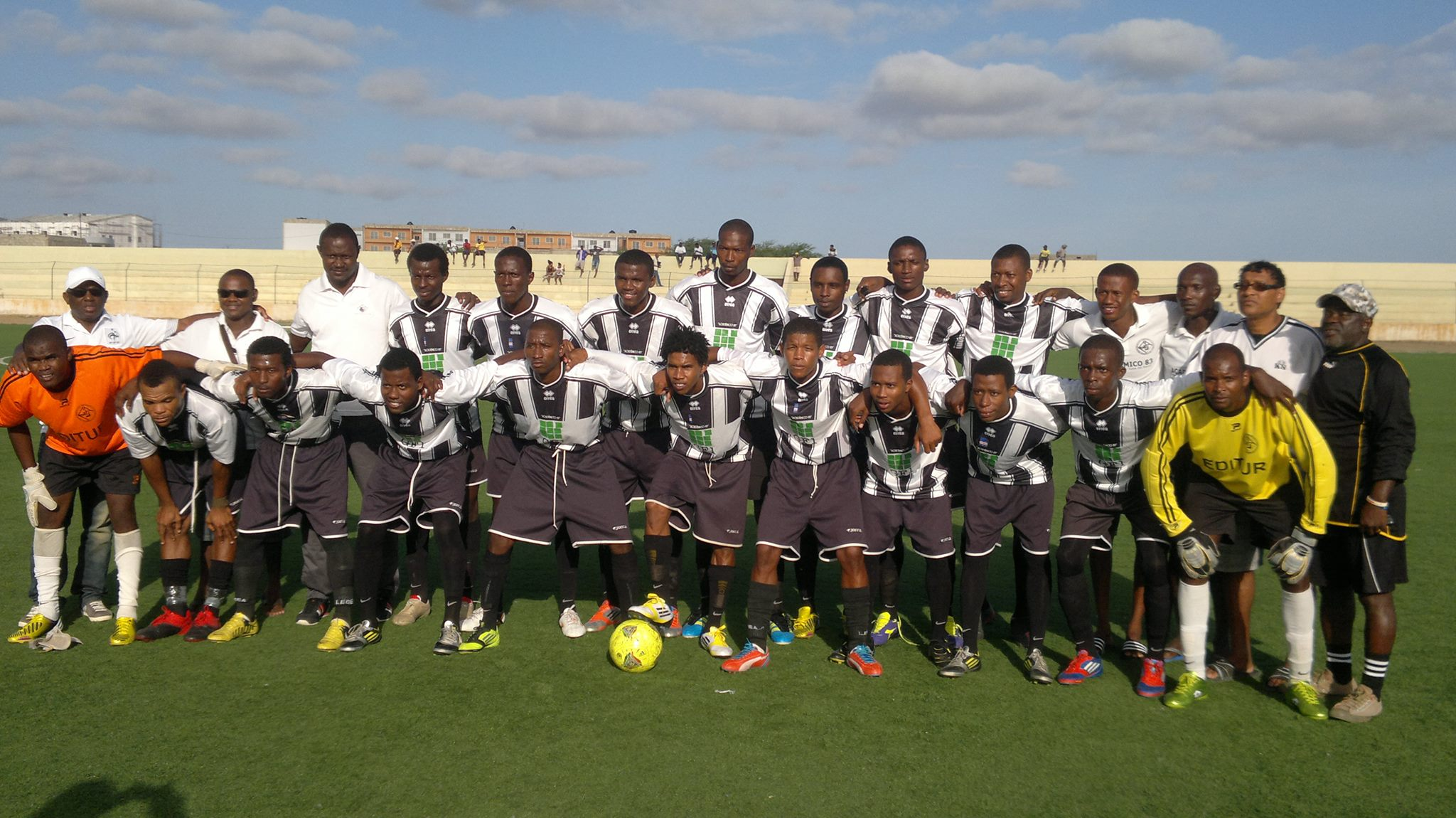 Académico83 squad